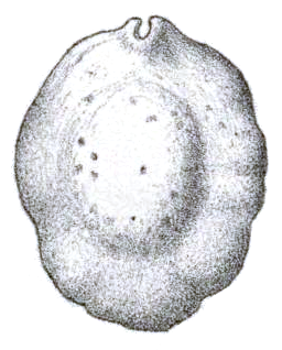 Drawing of dorsal view of live animal of Lamellaria latens.